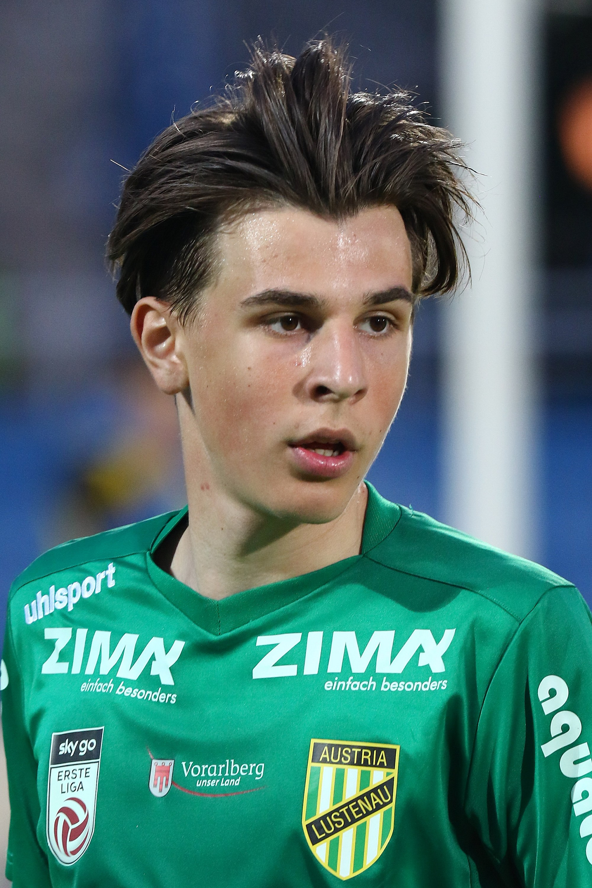 Football-championship Erste Liga 2017–18 - SC Wiener Neustadt (white shirts) vs. SC Austria Lustenau (green shirts) 2-2. – The photo shows Daniel Tiefenbach